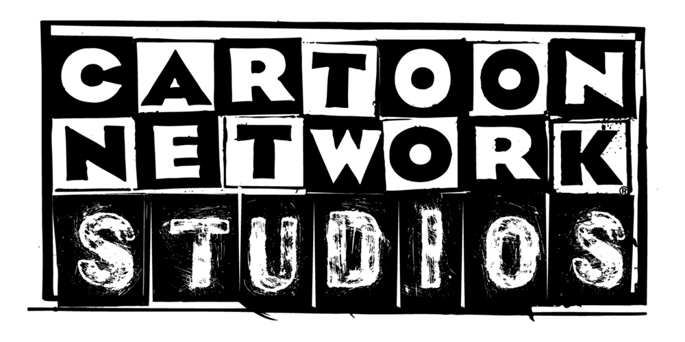 The third Cartoon Network Studios' logo.